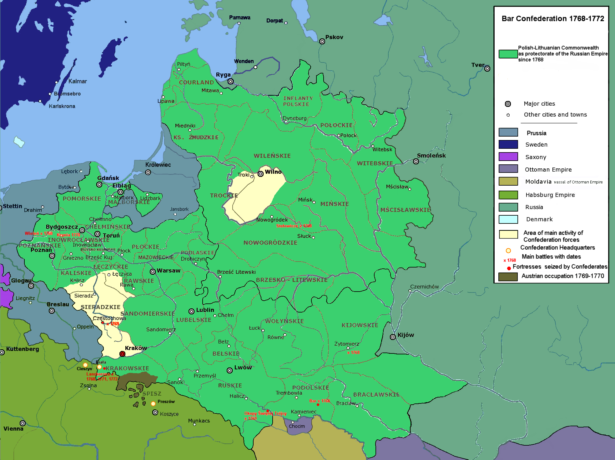 Bar Confederation 1768-1772 ██ Polish-Lithuanian Commonwealth Major cities Other cities and towns ██ Prussia ██ Sweden ██ Saxony ██ Ottoman Empire ██ Habsburg Empire ██ Russia ██ Denmark ██ Area of main activity of Confederation forces Confederation headquarters Main battles with date and location Fortresses seized by Confederates ██ Austrian occupation 1769-1770